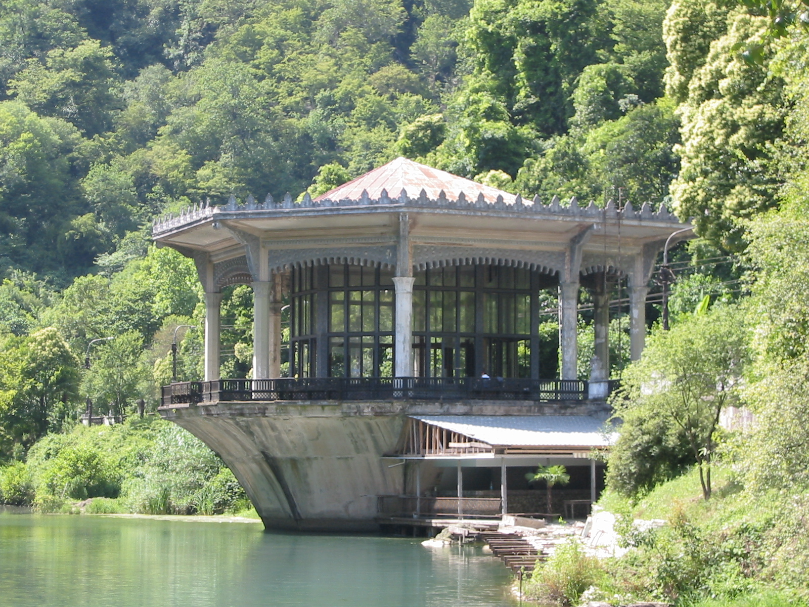 Novy Afon